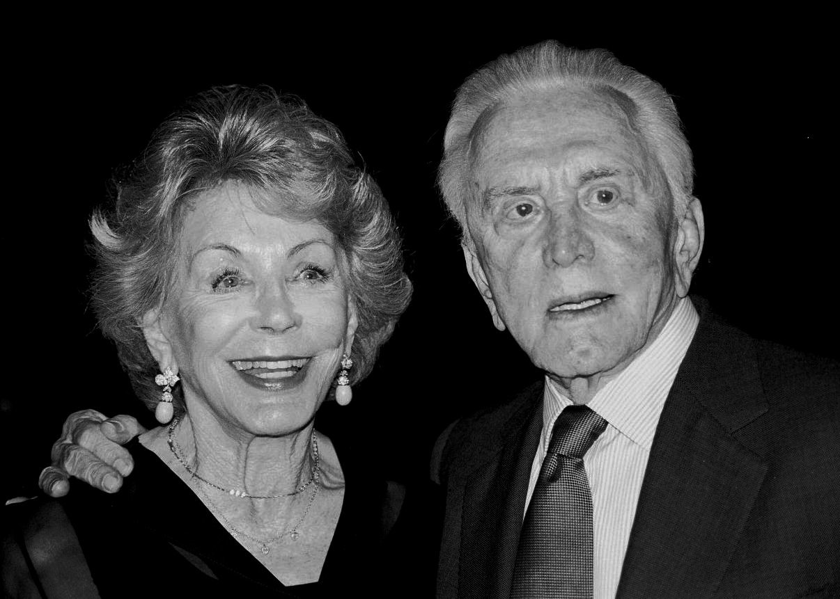 The former Ann Buydens receives an award.